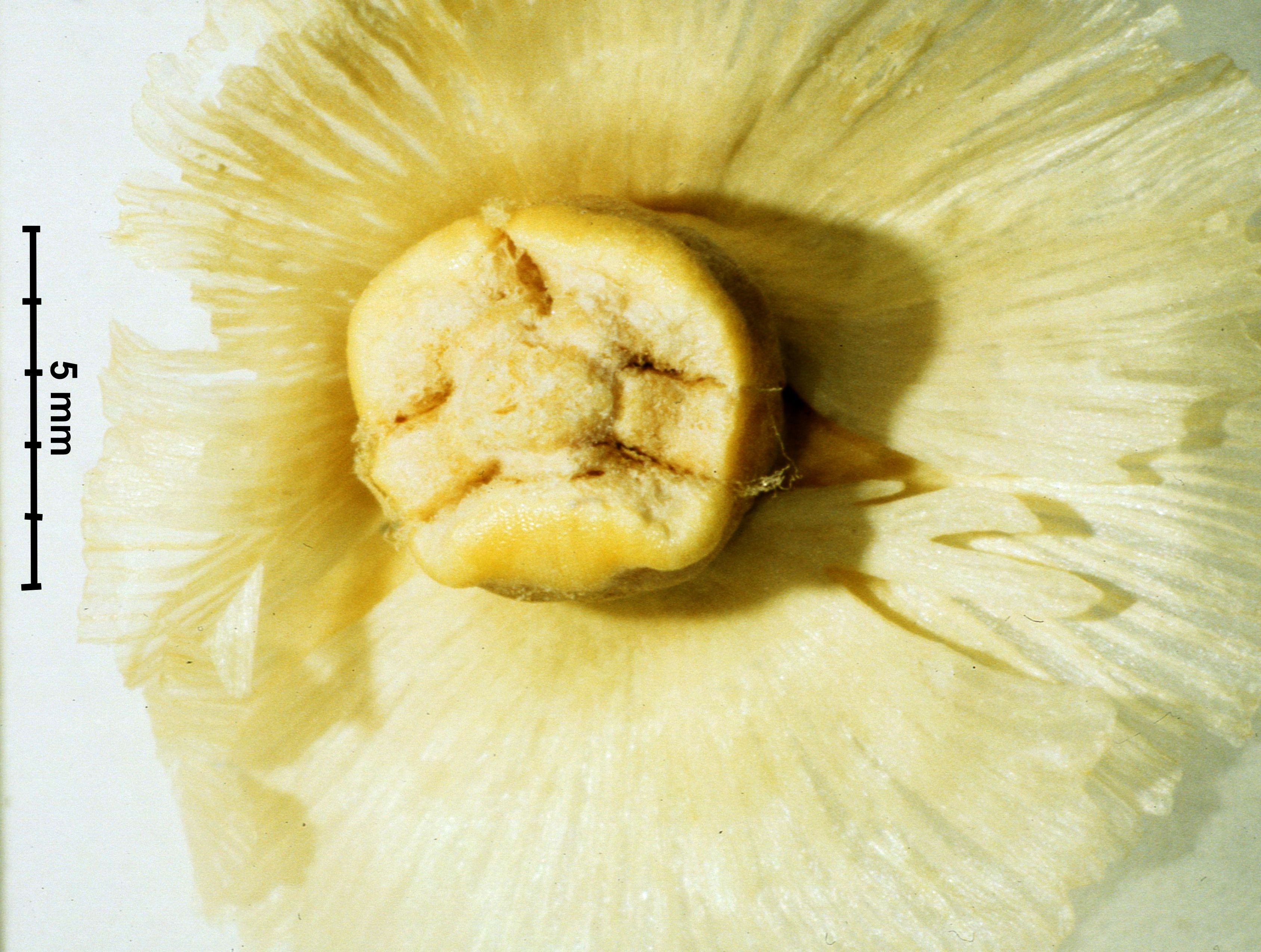 Fruit of Halothamnus auriculus, bottom. Herbarium specimen collected in Iran by H. Freitag No. 13656